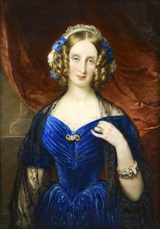 Depicted person: Louise of Orléans – French princess; Consort of Léopold I of Belgium